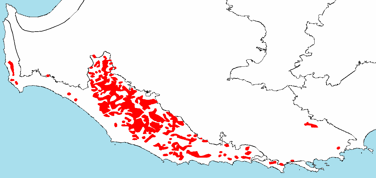 This is a map of the south west corner of Australia, showing the distribution of Eucalyptus diversicolor (Karri), a tall forest tree. The distribution is superimposed on a map of the IBRA biogeographic regions, illustrating the fact that the Warren biogeographic region (which is also the Jarrah-Karri forest and shrublands ecoregion, largely coincides with the range of this species.